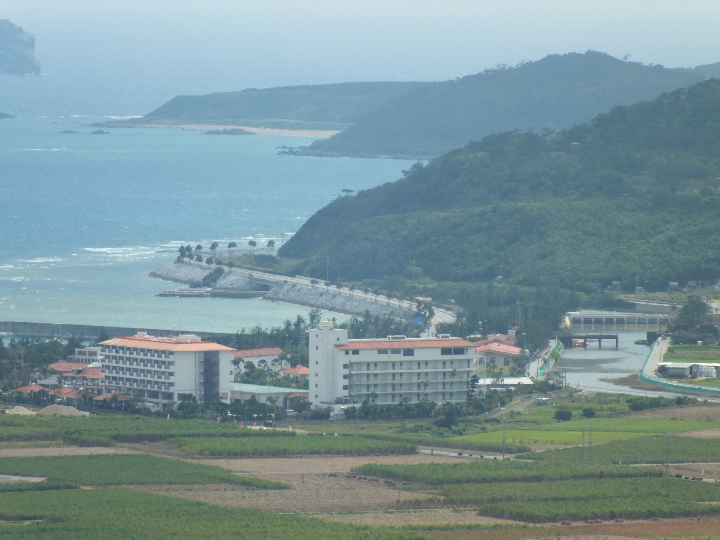 Īfu Beach seen from Tounnaha-jō, Kumejima, Okinawa Prefecture, Japan.